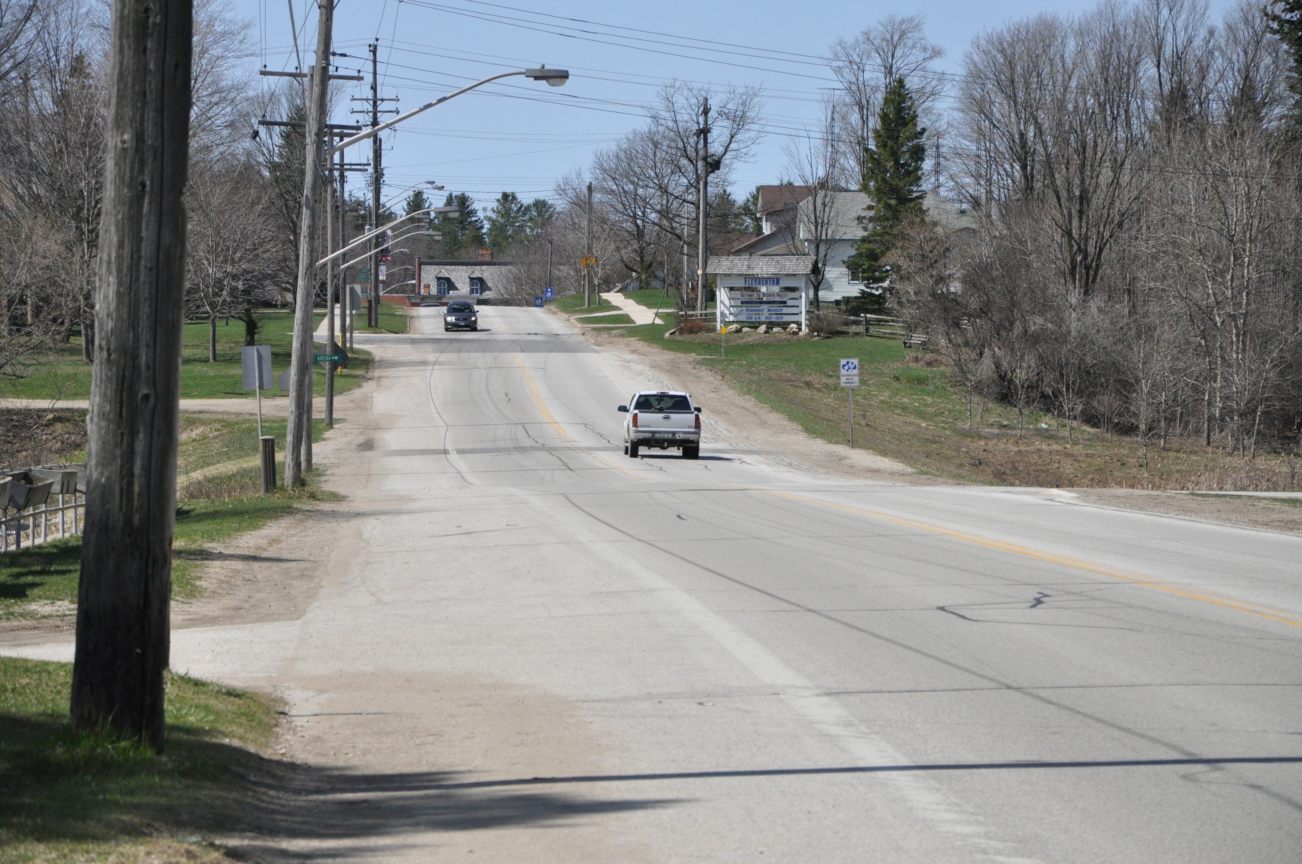 Highway 10 just south of Flesherton, Ontario. The dip in the highway marks a sinkhole first discovered in 1931. The highway continues to sink, so repairs to the asphalt surface as it stretches and breaks are frequent. The dark strip of asphalt the truck is about to cross marks the latest repair.